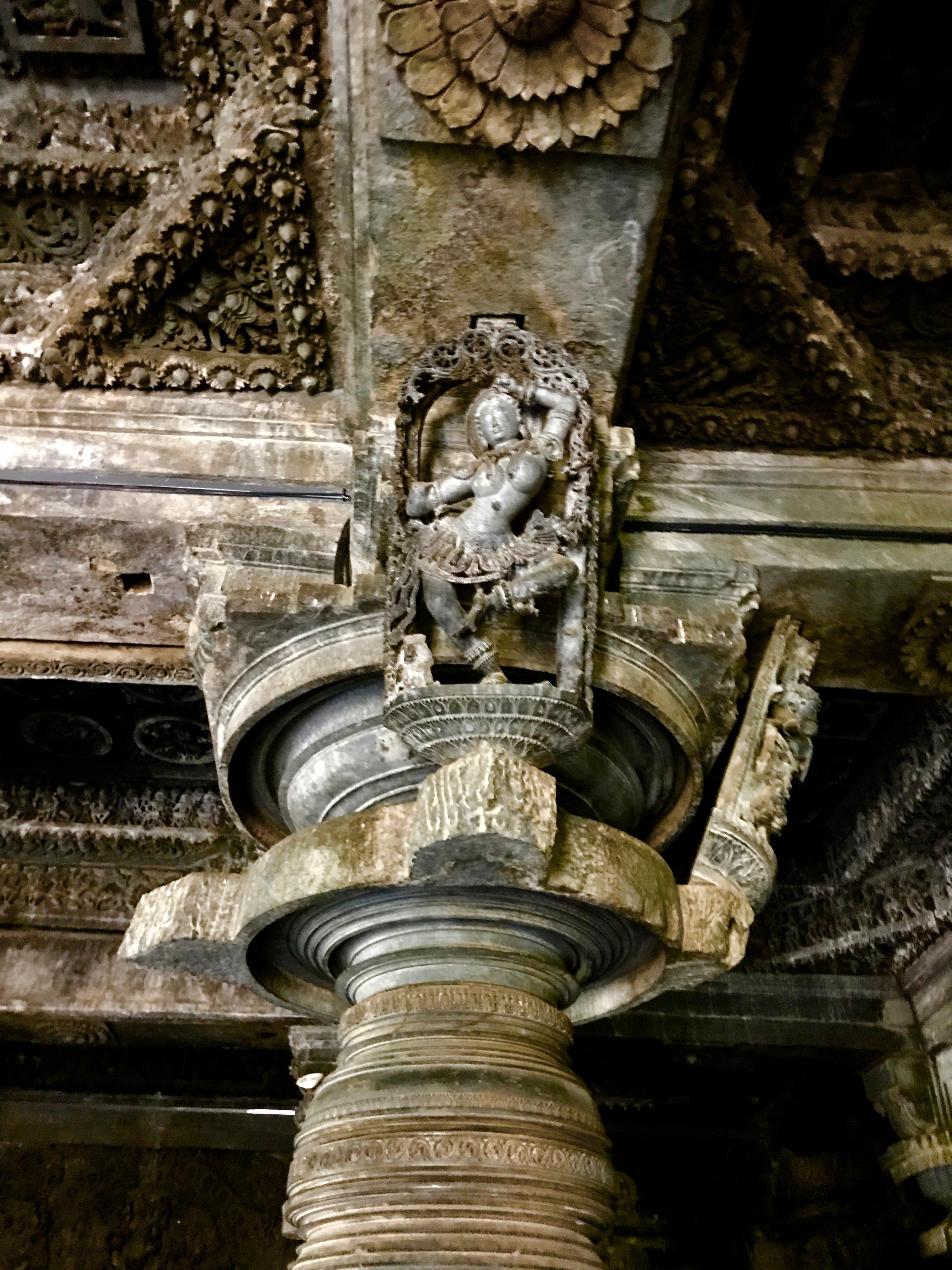 The Hoysaleswara Hindu temple is dedicated to Shiva. It was built in the first half of 12th century in Halebid (previously called Dwarasamudra, Hale bidu means "old capital"), sponsored by King Vishnuvardhana of the Hoysala Empire. During the early 14th century, Halebidu temple site along with others were sacked, looted and much artwork damaged (particularly nose/face, hands) by Muslim invaders from northern India (Khilji dynasty and Tughlaq dynasty of Delhi Sultanate). The temple belongs to the Shaivism tradition of Hinduism, yet reverentially presents its Vaishnavism and Shaktism tradition legends and ideas. The relief panels present legends from the Ramayana, the Mahabharata, the Puranas. Vedic deities such as Agni, Indra and Surya, various avatars of Vishnu, the Hindu goddesses such as Saraswati, Lakshmi avatars, Durga, Kali among others are presented. The carving is three dimensional where reliefs often emerge as statues with depth. Panels are continuous, with one perspective showing one part of the legend, a perpendicular perspective of the same column or wall or corner showing another part of the same legend. The carving material was soapstone.